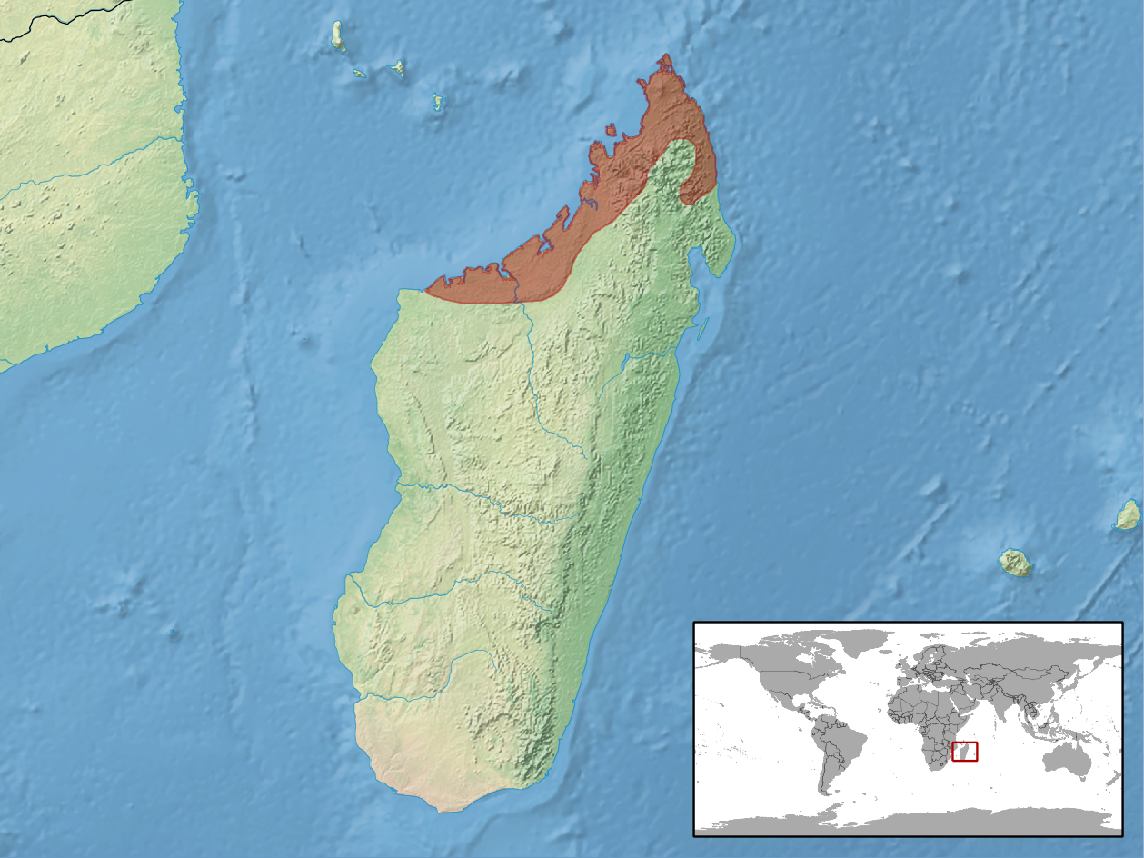 geographic distribution of Brookesia stumpffi (Native: Madagascar)